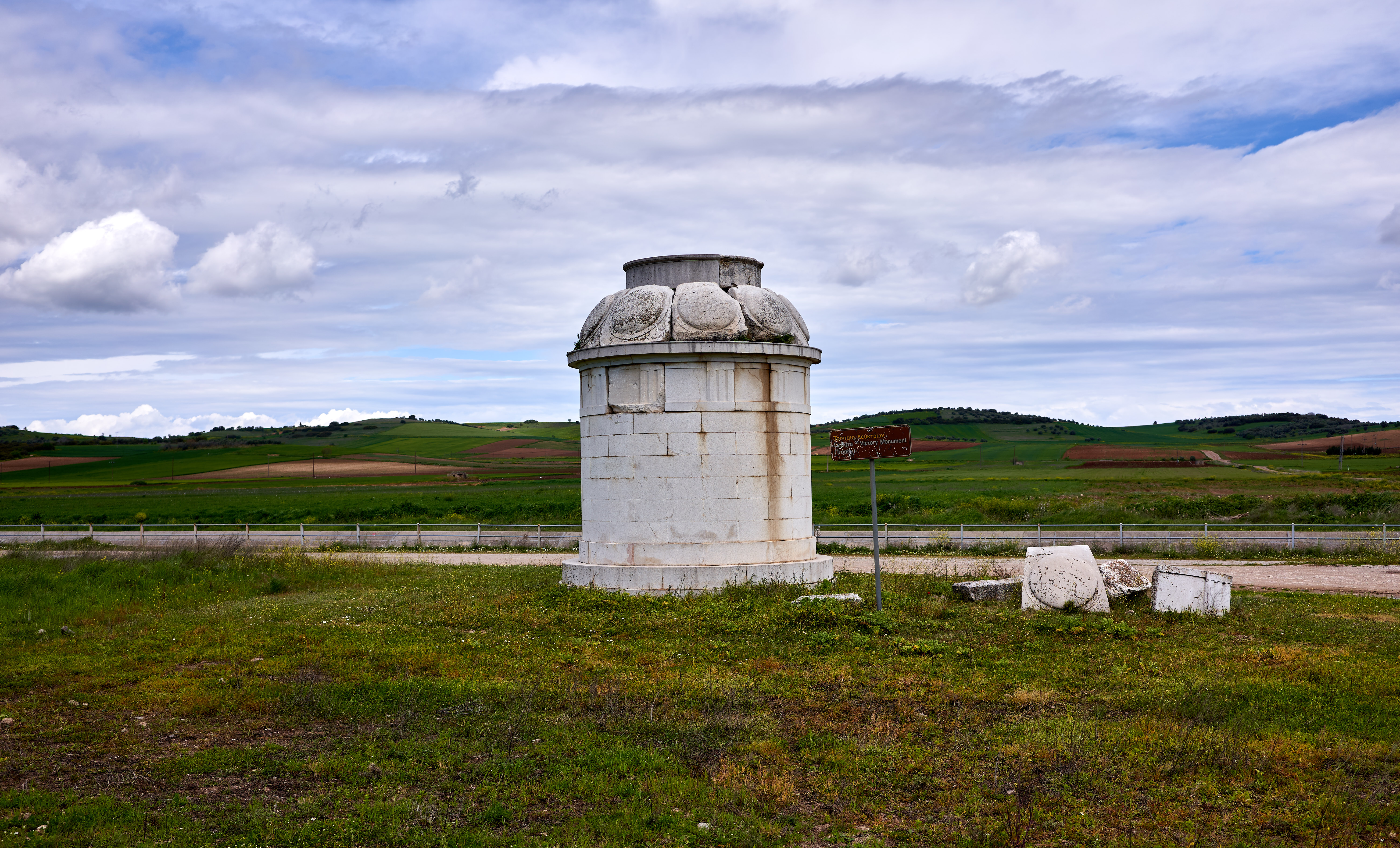 The restored victory monument (tropaion) of the Battle of Leuctra. Lefktra, Boeotia, Greece.